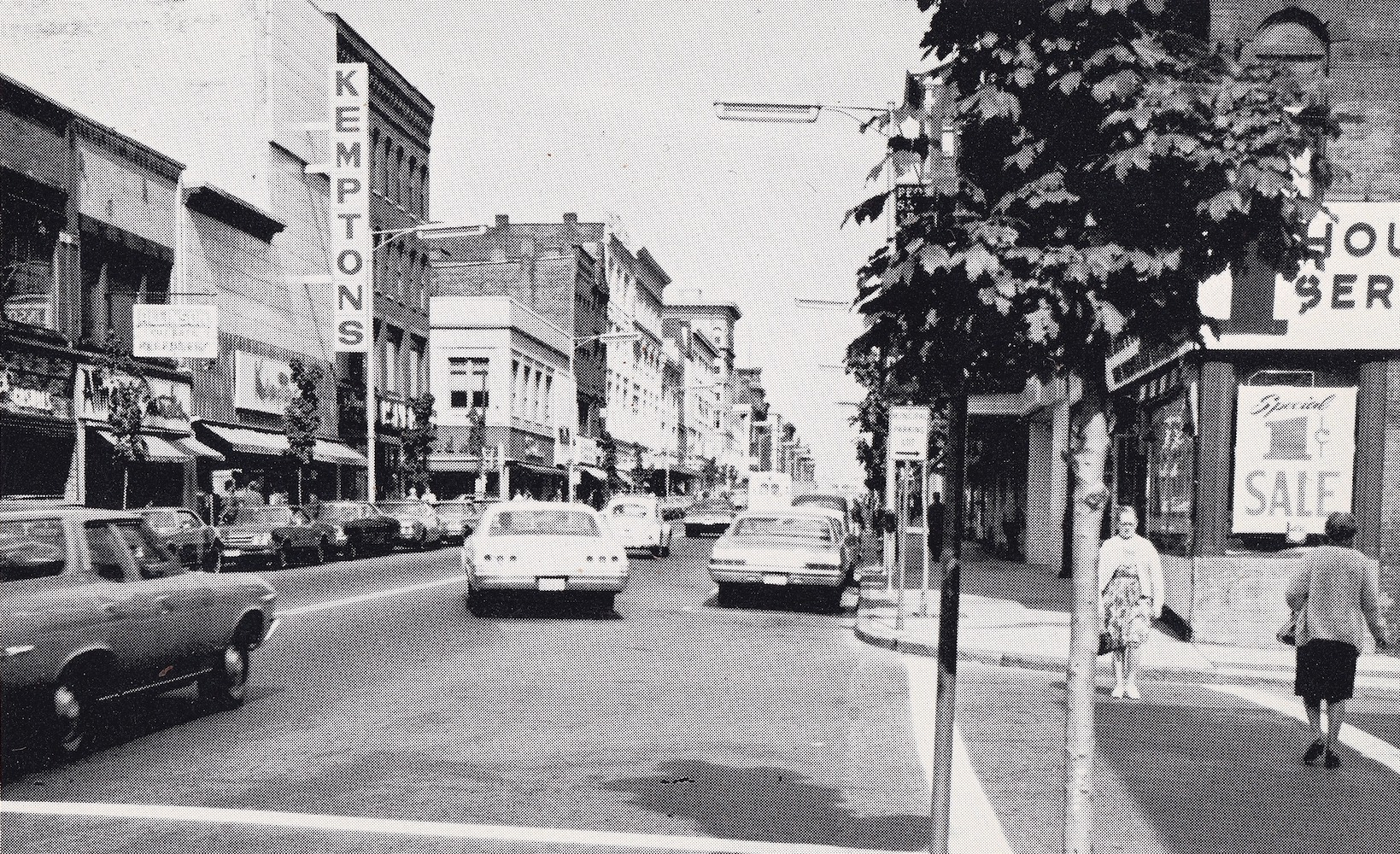 High Street in Holyoke, Massachusetts' downtown, looking northward toward the North High Street Historic District from the corner of Division Street. This card has no copyright notice and was determined to be published between 1969 through the summer of 1970 as shown on other cards in the set are Holyoke Community College's temporary building, constructed in 1969, and High Street without one-way traffic, enacted in 1970.